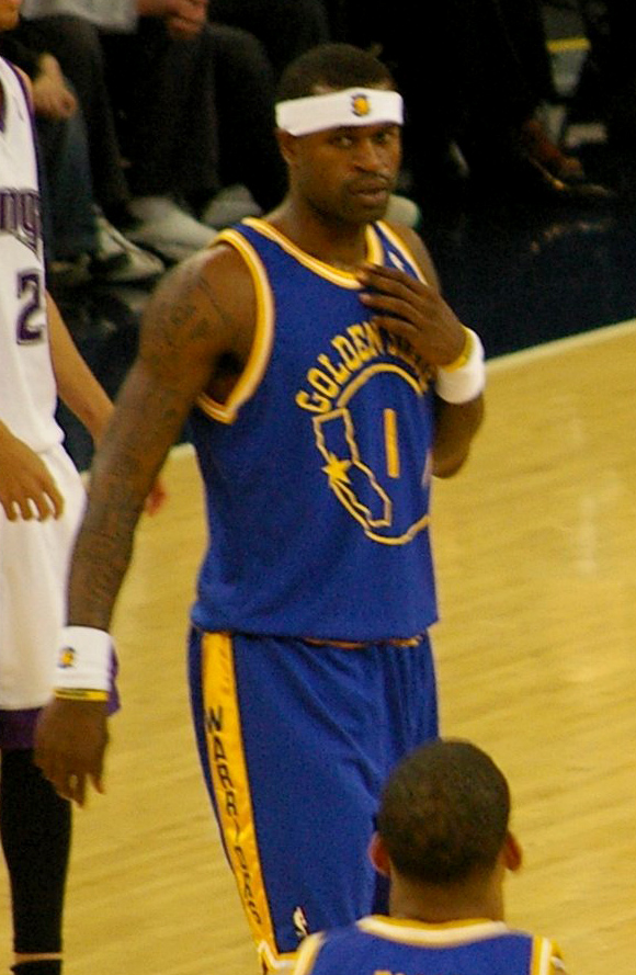 This file has been extracted from another file: Golden State throwbacks.jpg